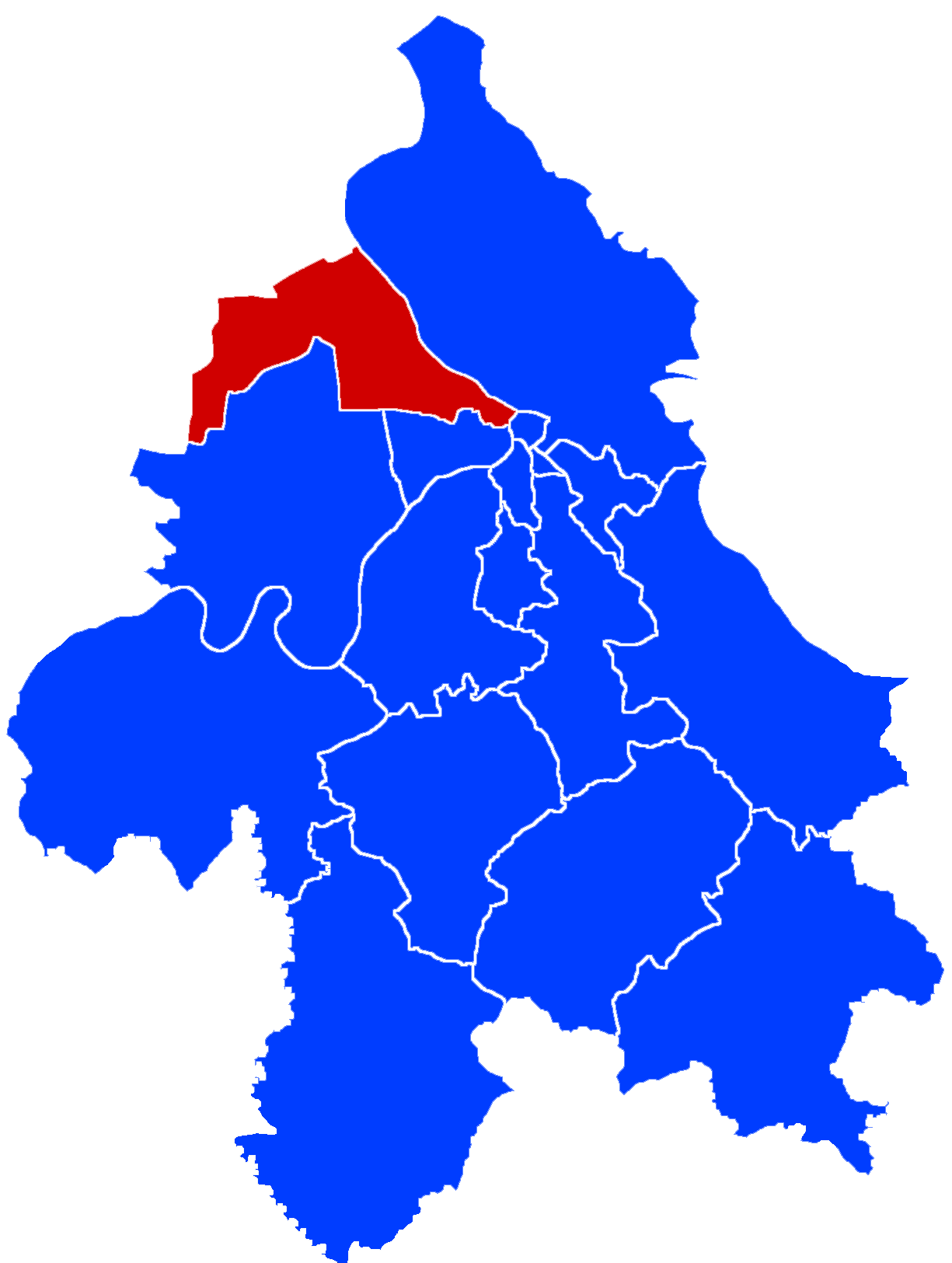 The graphical representation of the municipality of Zemun within the city of Belgrade